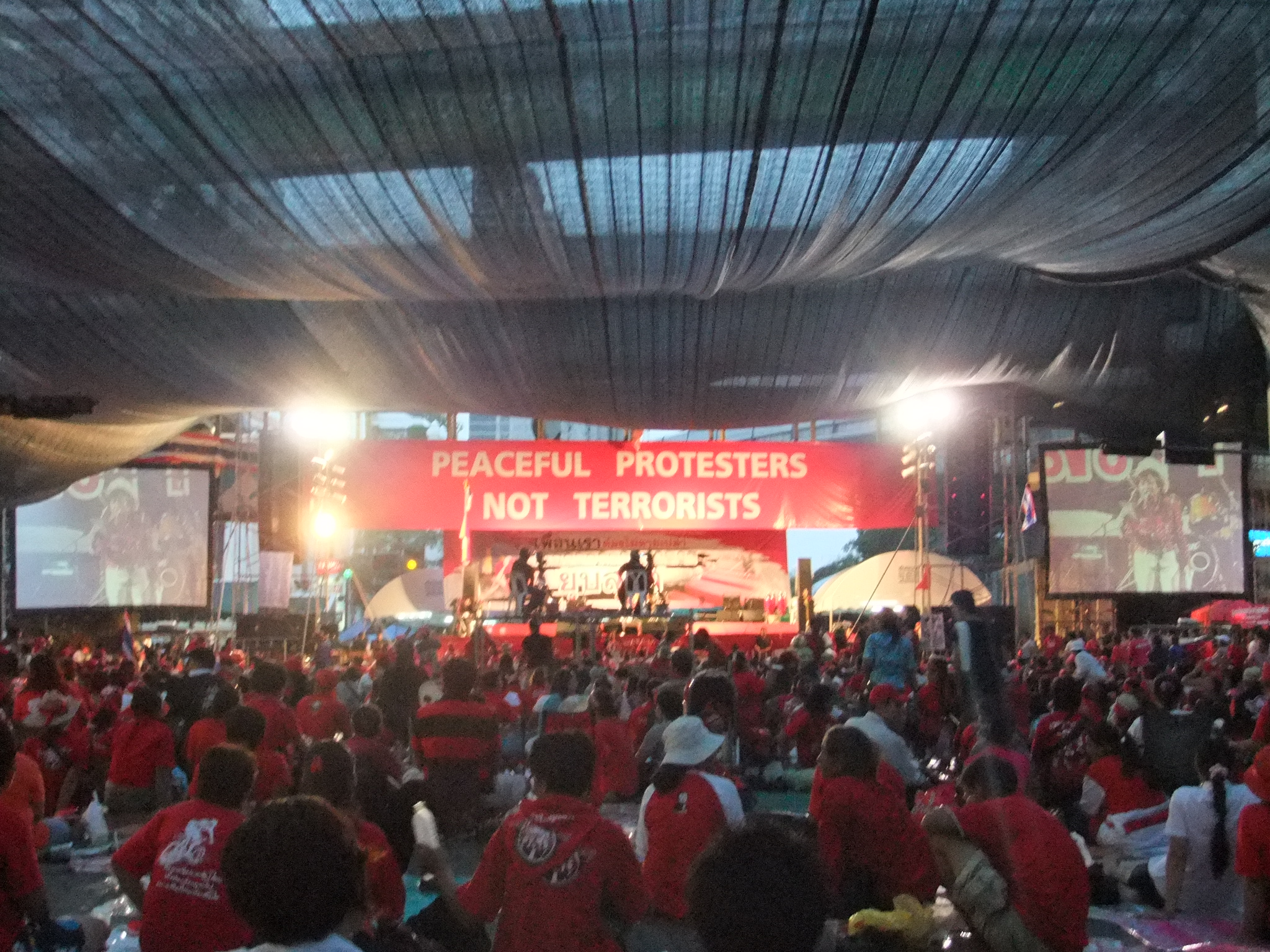 An assembly held by United Front for Democracy Against Dictatorship, near Chit Lom Station, Bangkok.